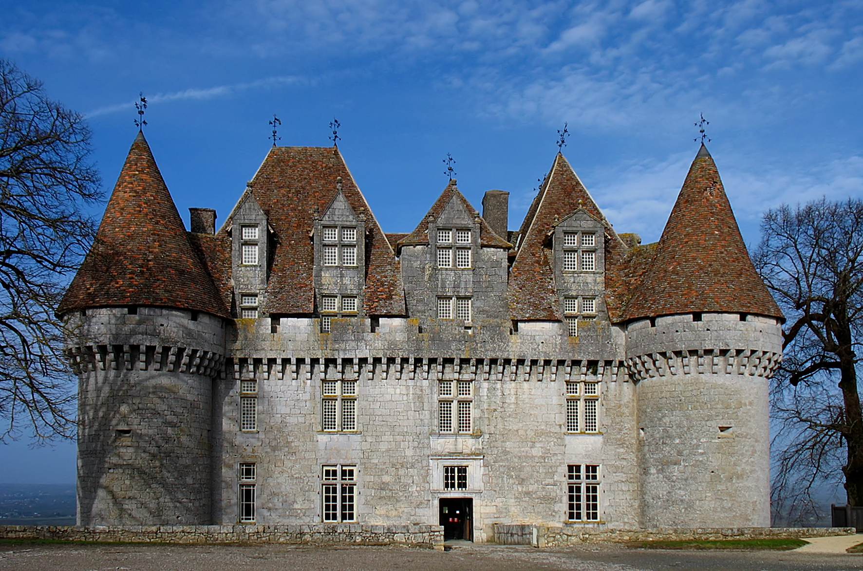 Château de Monbazillac (Dordogne) France